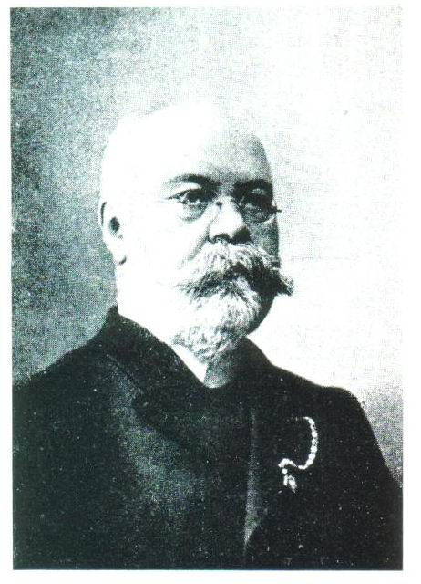 Portrait of Károly Siegmeth